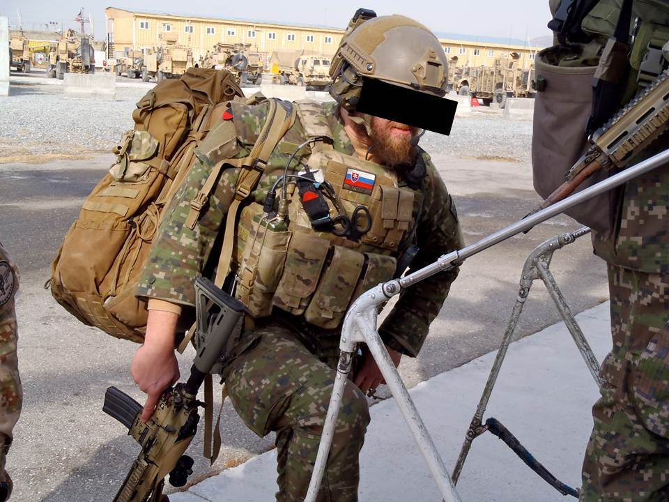 Slovakian SOF soldiers load an aircraft in eastern Afghanistan